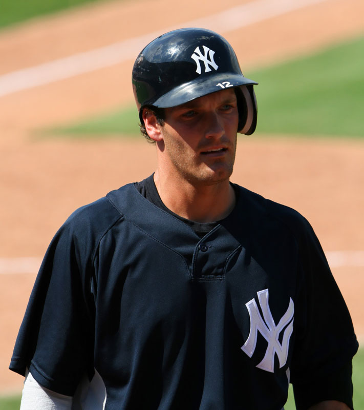 Nick Green, 2008 22:58, 8 April 2009 . . BubbaFan . . 711×800 (63 KB)